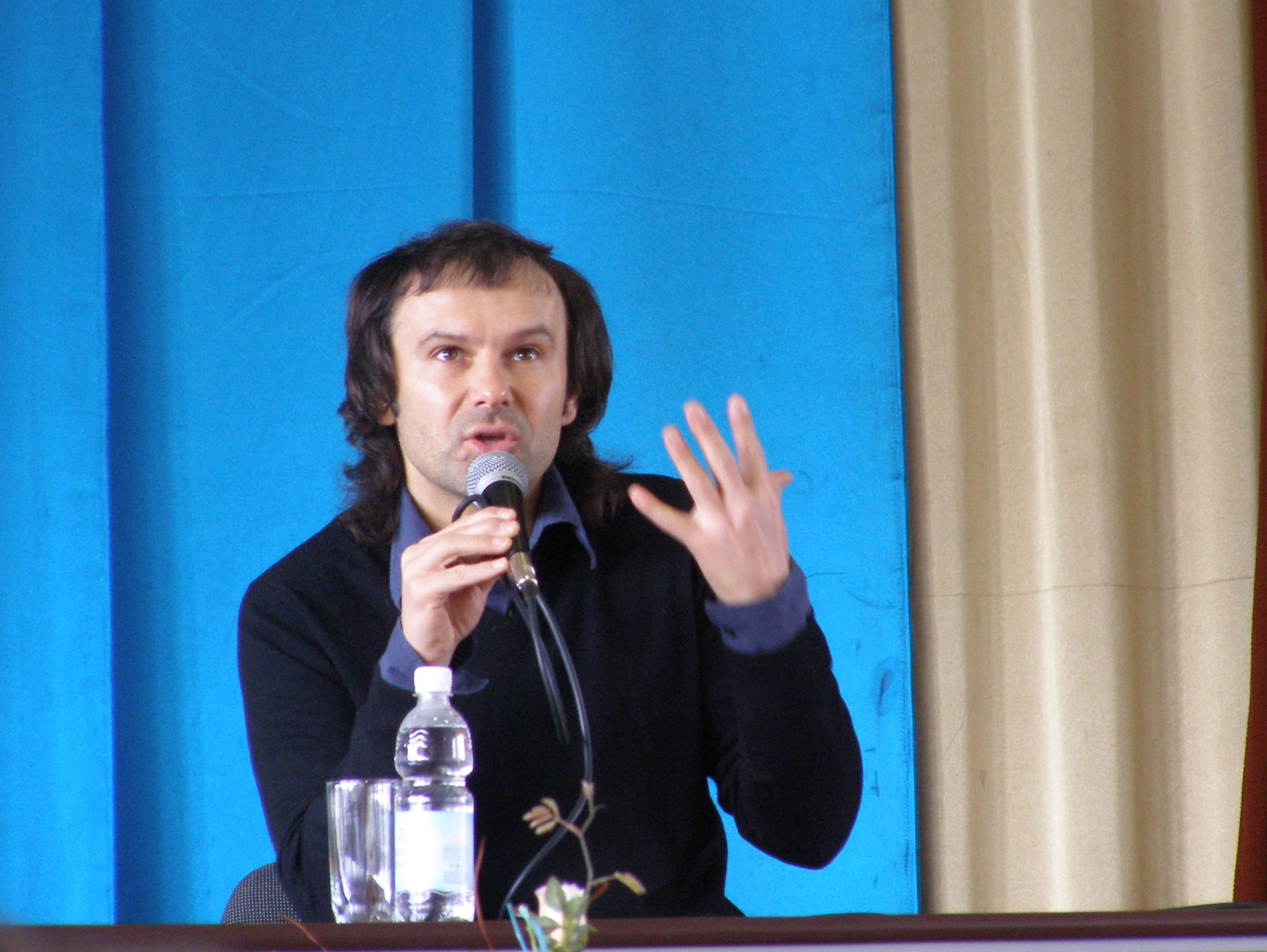 Svyatoslav Vakarchuk during his meeting with students in Lviv